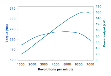 A dyno graph of the 2.7 litre 6-cylinder engine in the April 2004 Porsche Boxster. Estimated from the copy on the Porsche website.